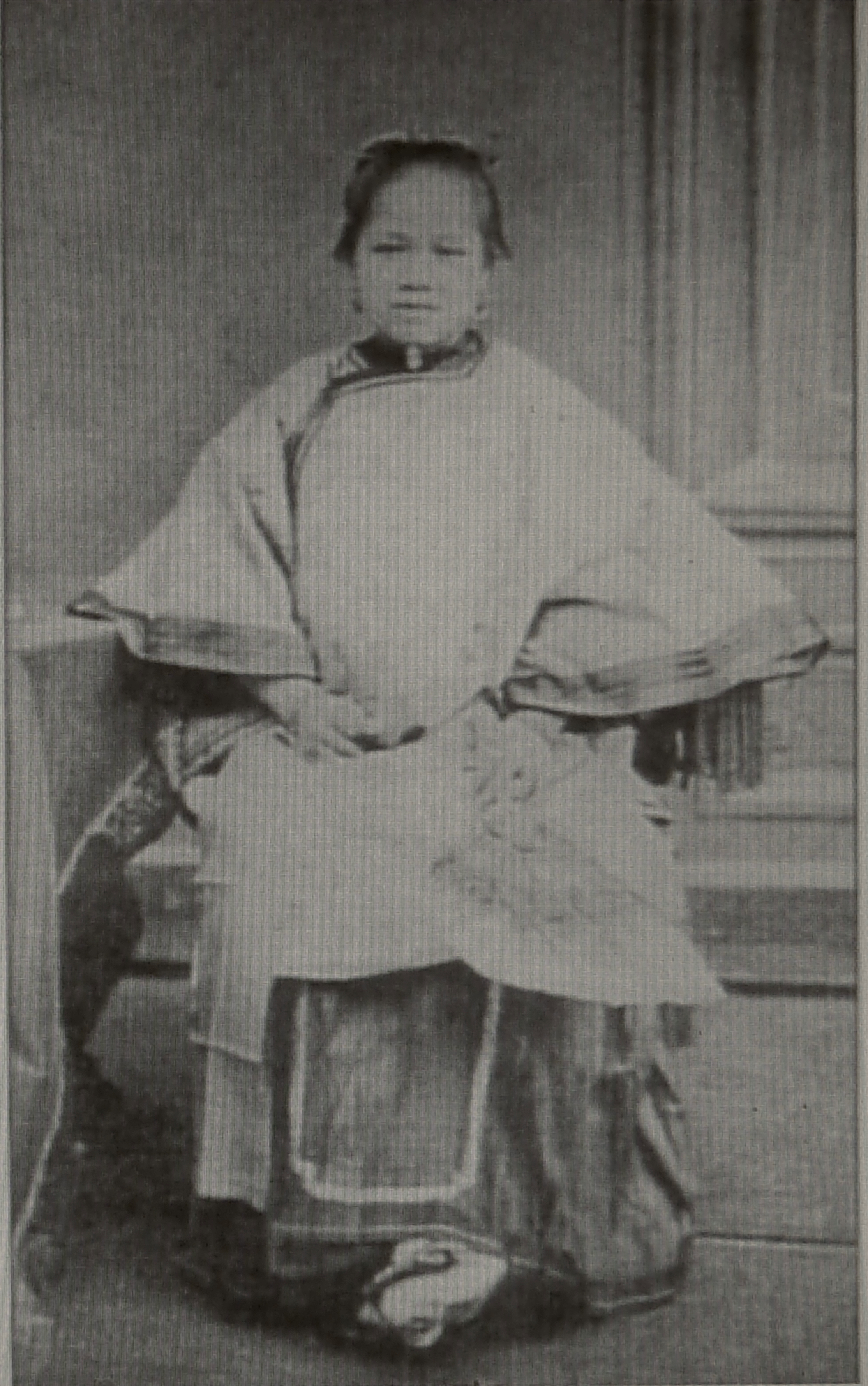 1870s photograph of a female Chinese worker at the Beaver Falls Cutlery Company, Pennsylvania. Chinese workers were brought in following the labor dispute of 1872, and they remained there for five years.